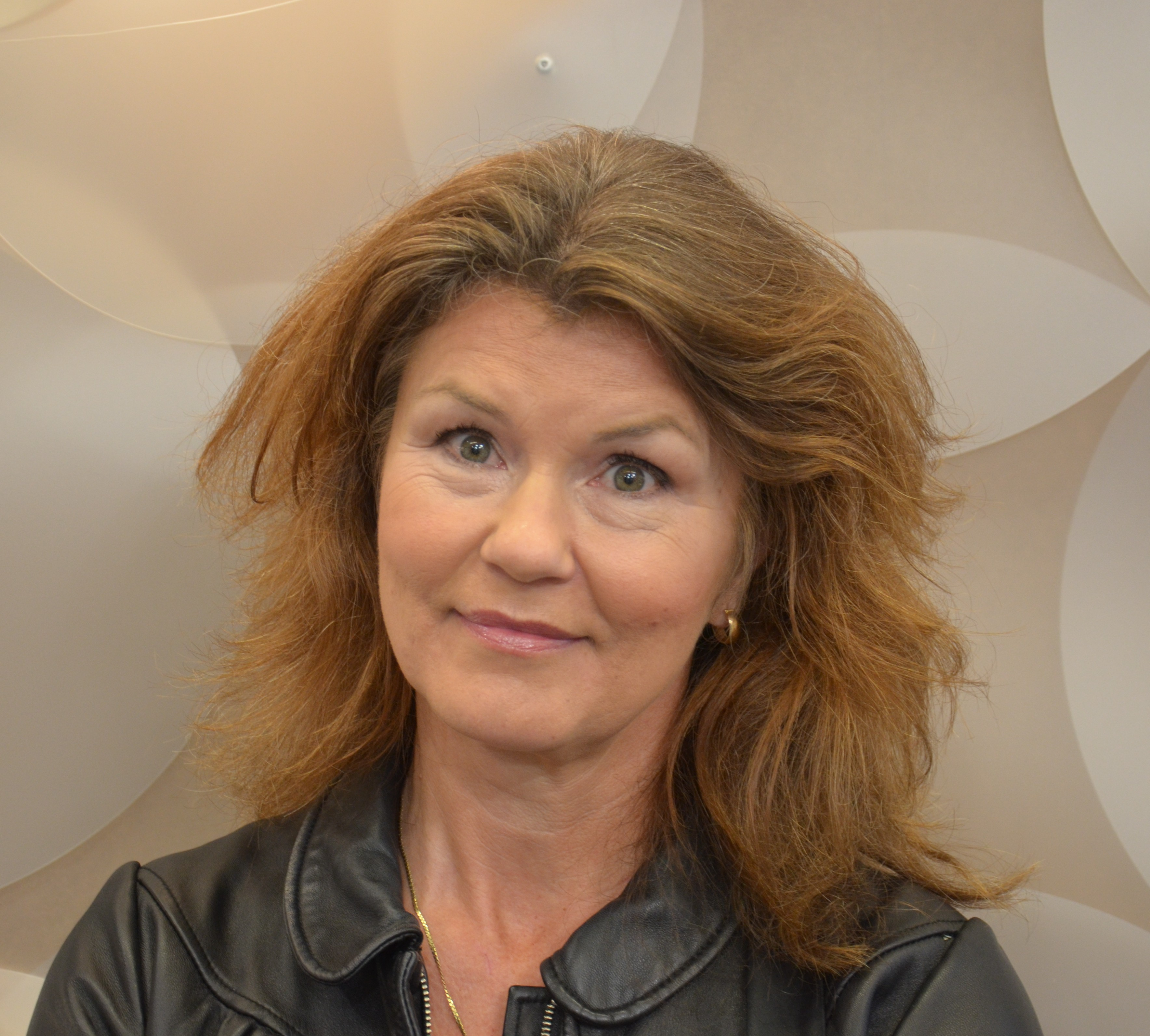 Heidi Avellan, Swedish journalist, born in Finland